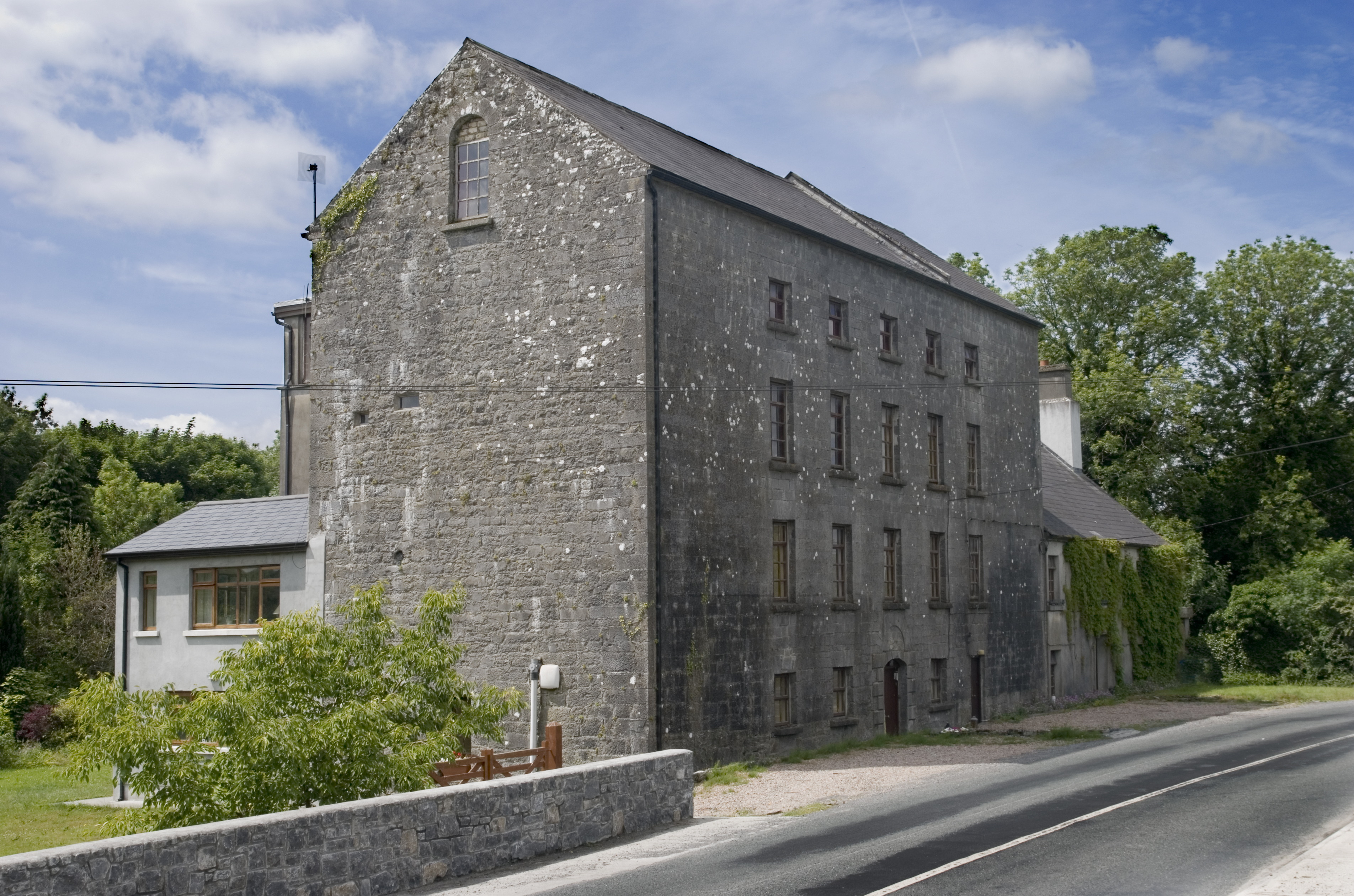 Cregg Mill and Cottage in Corrandulla, County Galway, Ireland. Cregg Mill is a converted watermill with adjoining miller's cottage.